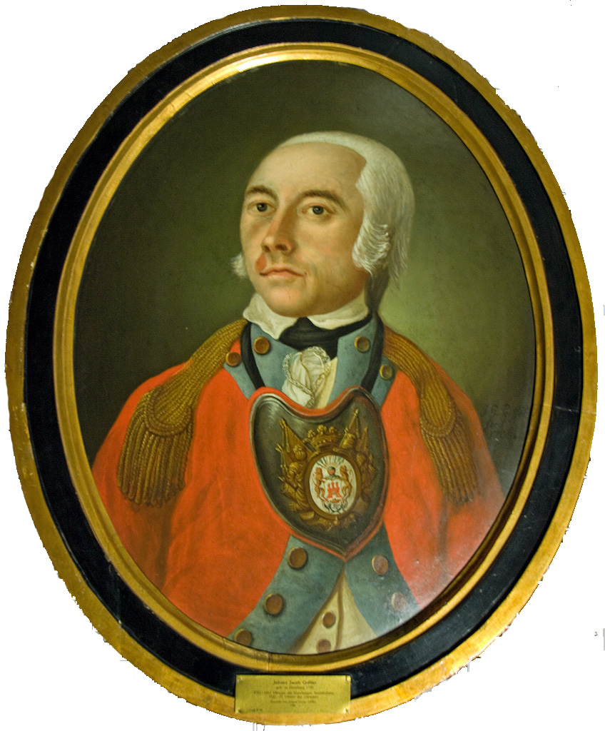 Johann Jacob Gossler (1758–1812), colonel in French imperial service, died in Russia during the French invasion of Russia. Brother of merchant and banker Johann Hinrich Gossler.